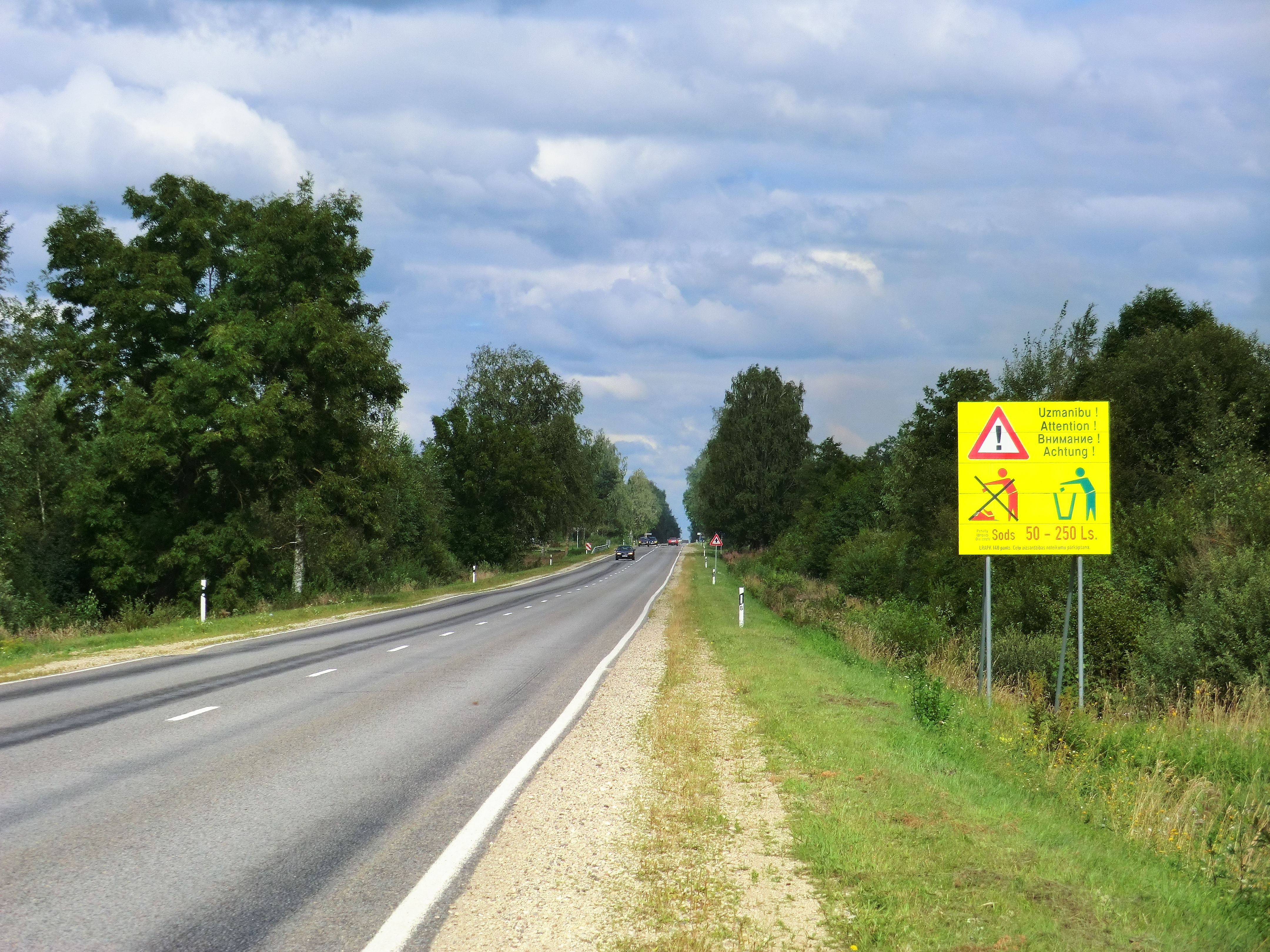 Road A13 near Kārsava